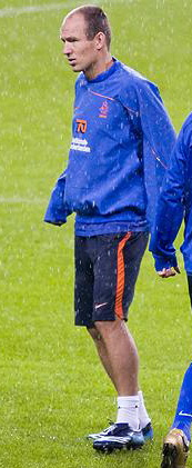 Arjen Robben